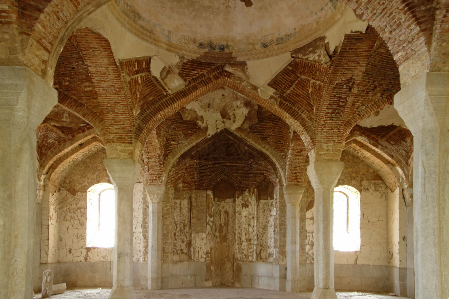 Shushi, Mosque Ashagi (Lower) Gevhar Aga, interior